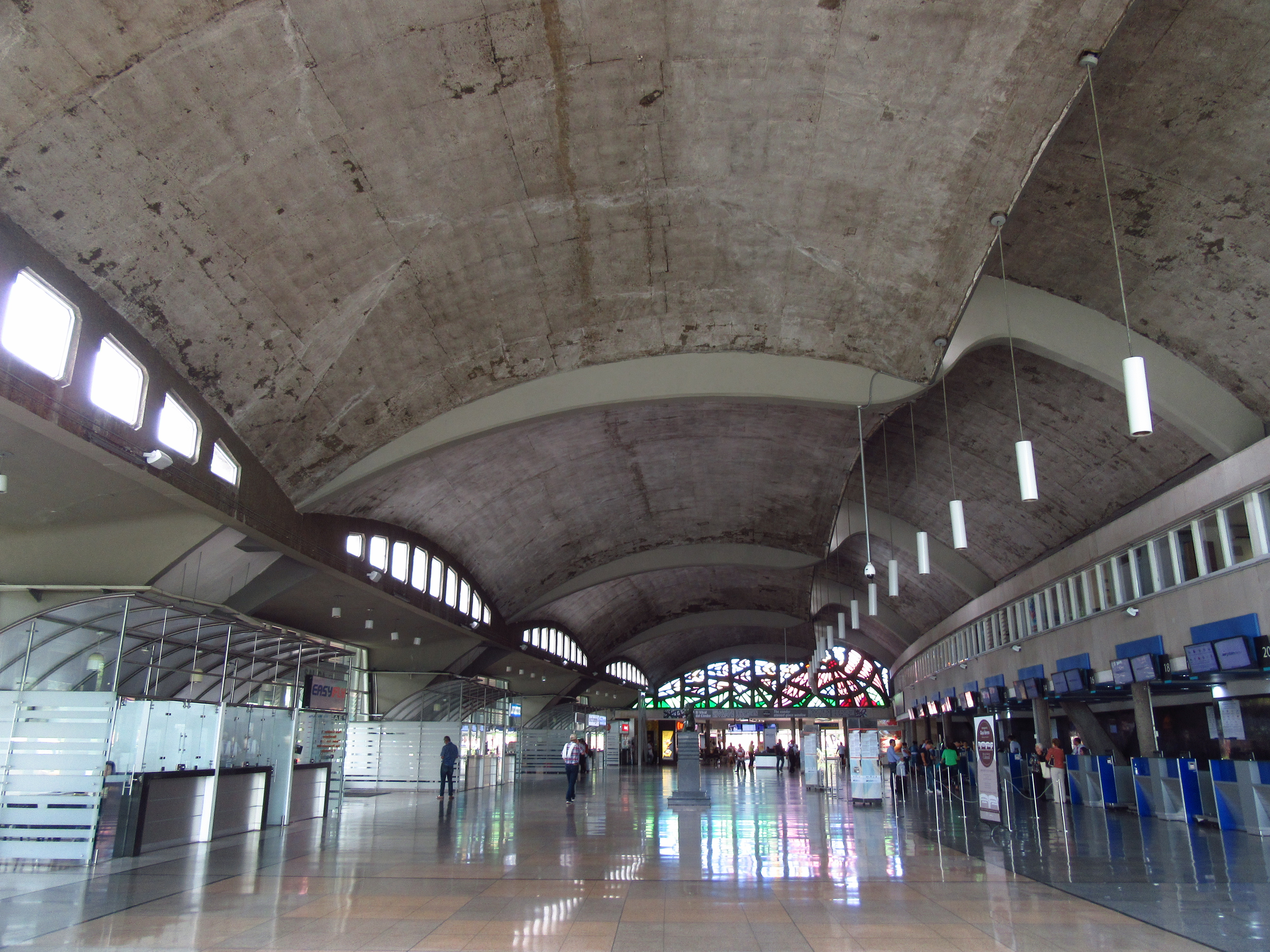 Medellín